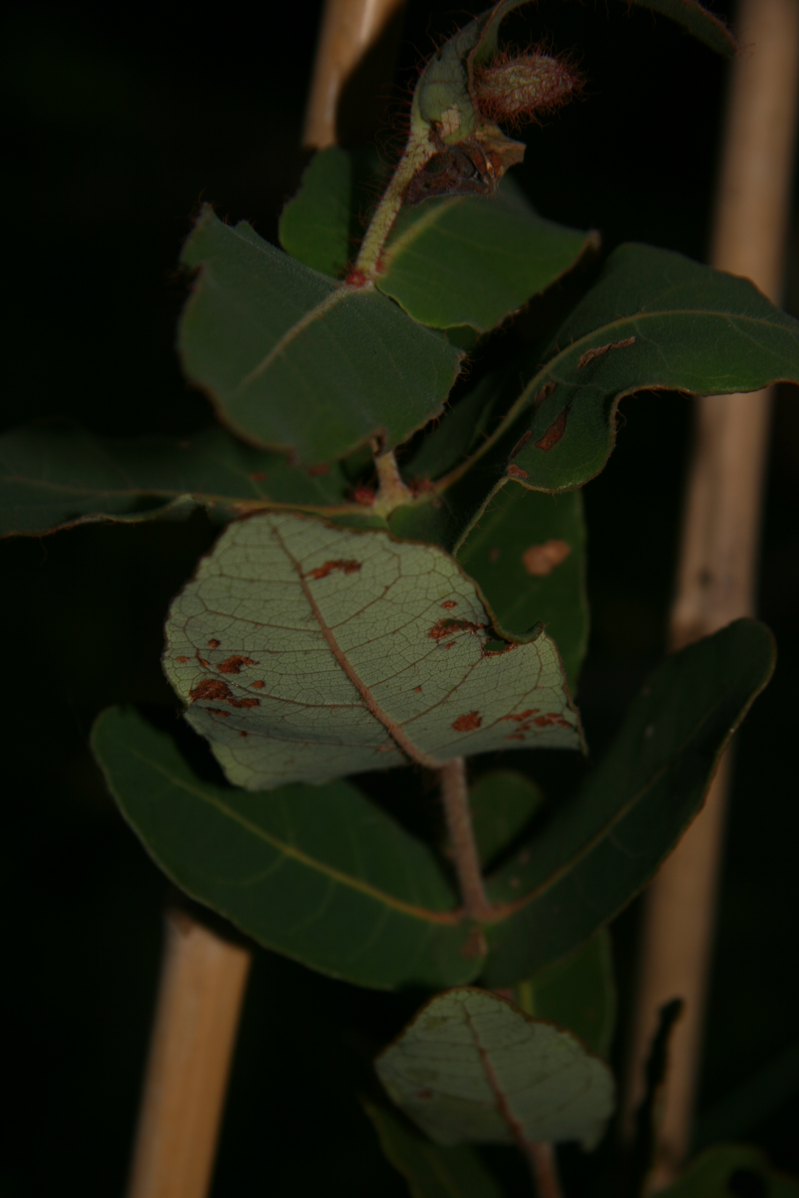 Angophora hispida plant, with suspicious patch on leaves (hopefully not myrtle rust...)